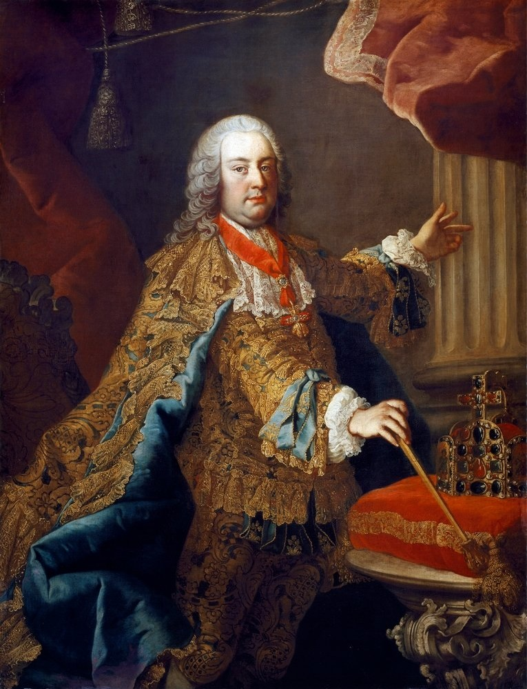 Portrait of Francis I, Holy Roman Emperor (1708-1765)